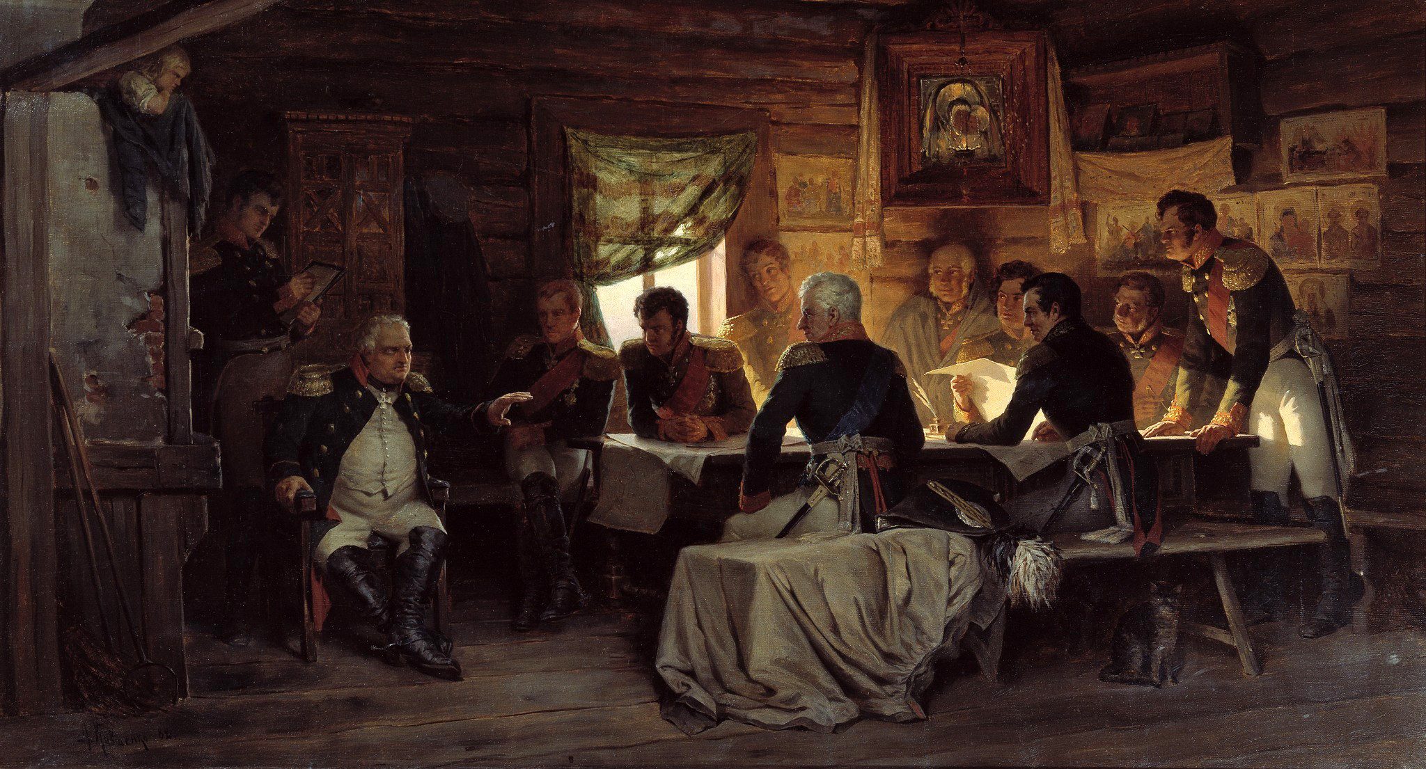 Michail Illarionovich Kutuzov (1745 - 1813), commander-in-chief of the Russian army is sitting on the far left, with his generals at the talks deciding to surrender Moscow to Napoleon. Fili is today a forest park in a western district of Moscow. The room is the home of peasant A.S. Frolov. Barclay de Tolly is sitting at the corner, under the Virgin and Child icon Fyodor Uvarov is sitting near Barclay holding a paper Nikolay Raevsky is sitting by the window with his fingers locked together Alexey Yermolov is standing on the far right, resenting the Kutuzov's plan and demanding to fight the enemy generals listen carefully to their commander-in-chief